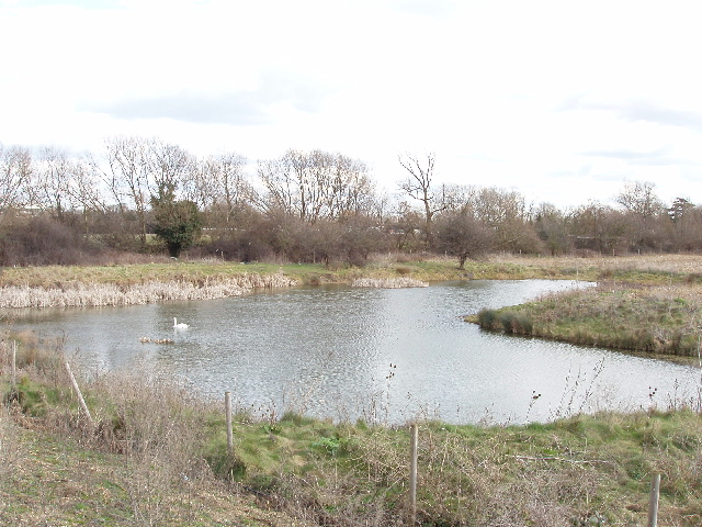 Pond on Stanwell Moor